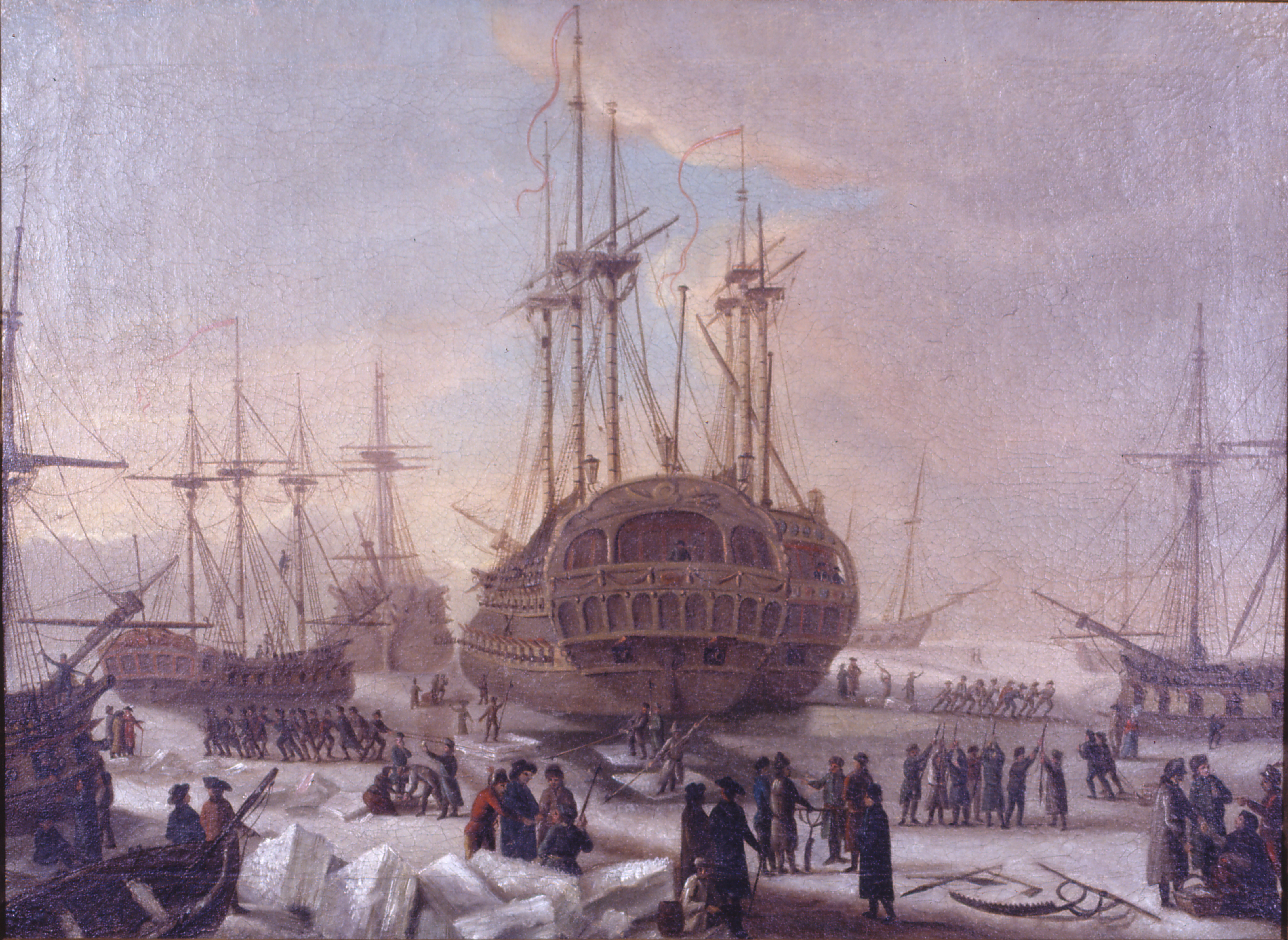 Danish expedition to Algier prior to its departure from Copenhagen in 1770Cropped from file in mfs.dk (see source). The original file is labelled CC-BY-NC-SA to "M/S Museet for Søfart" (Danish Maritime Museum).